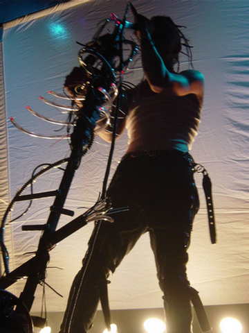 Ben Kopec live in performance